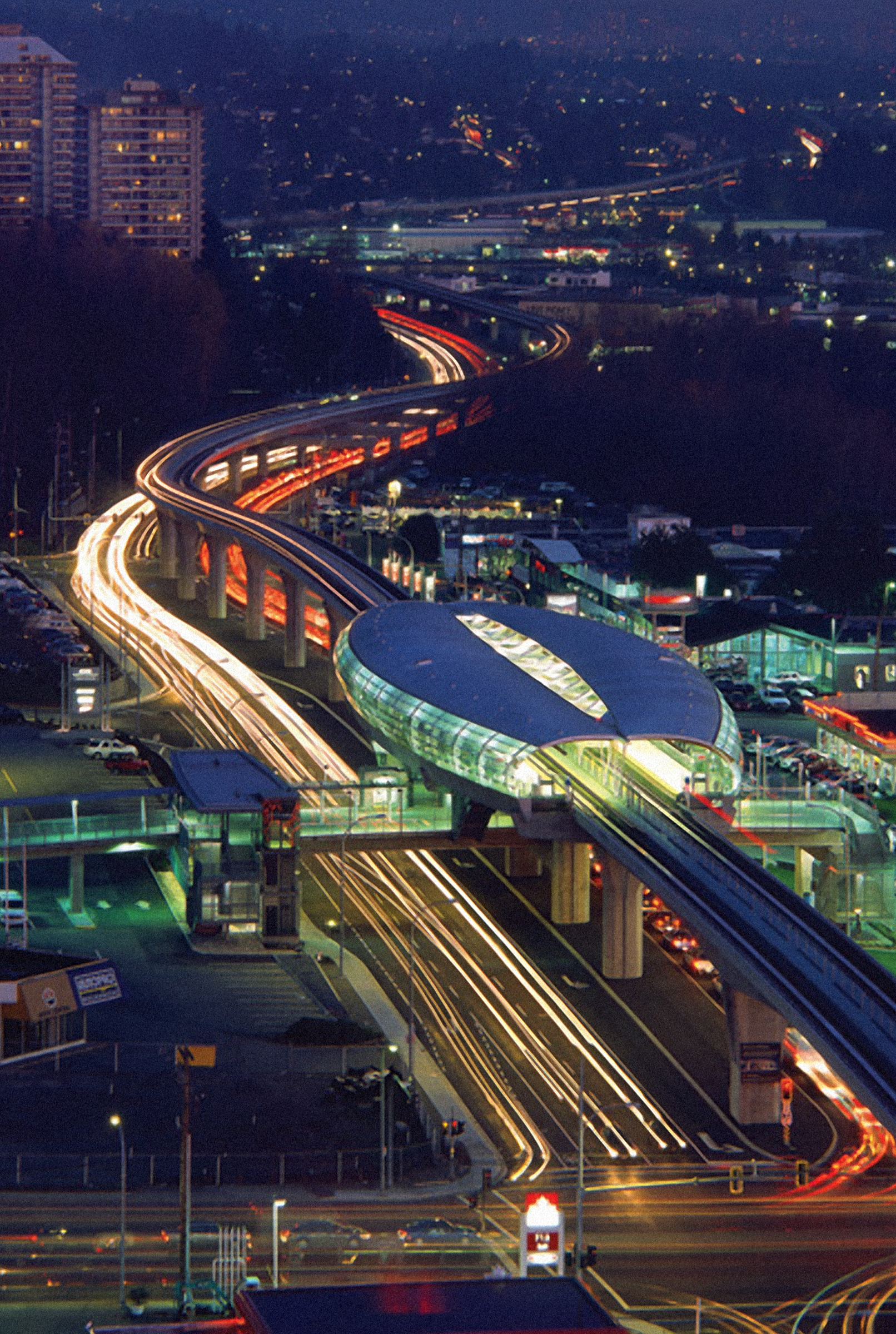 Nightshot of Brentwood Skytrain